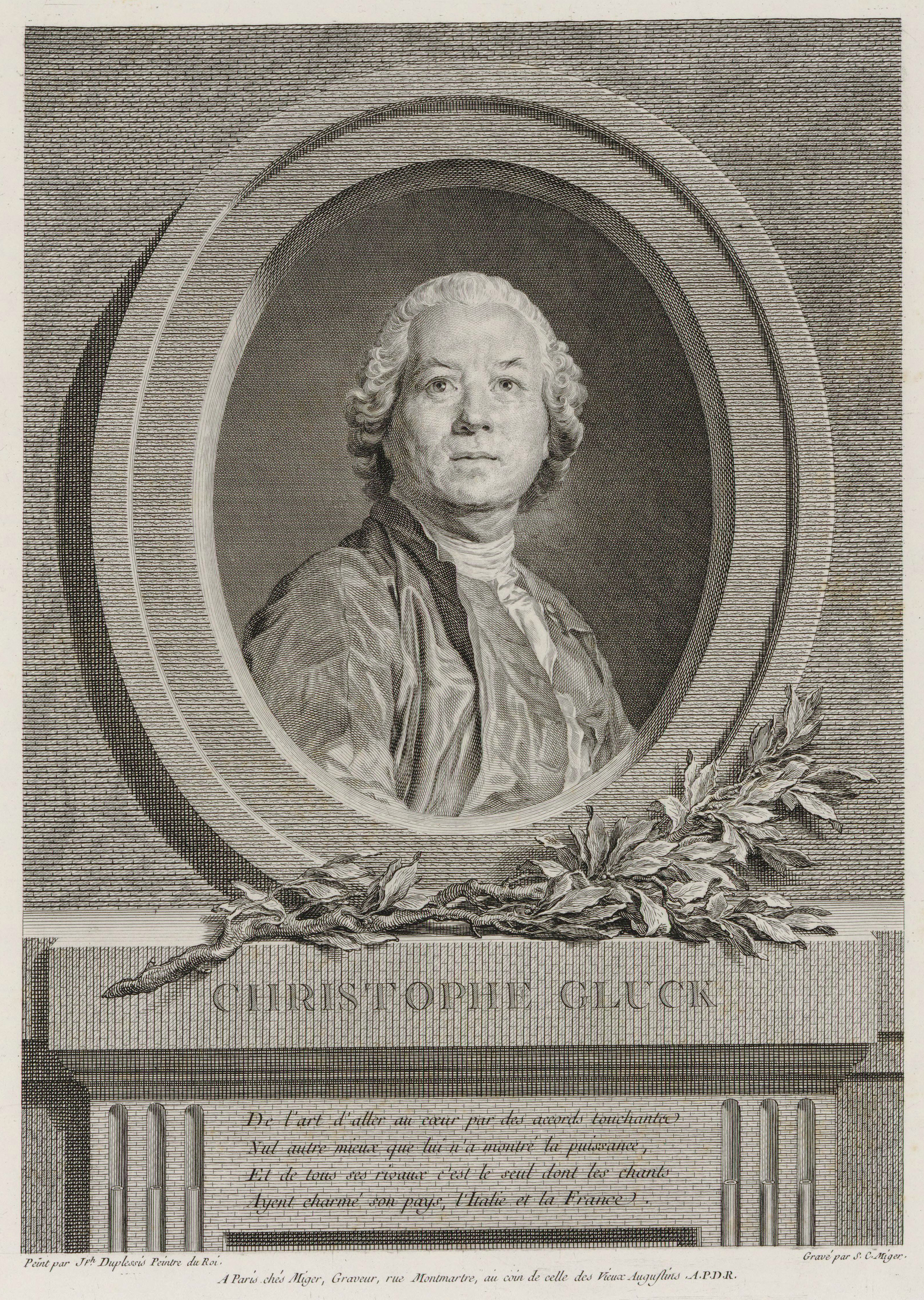 Portrait of Christoph Willibald Gluck (1714–1787)